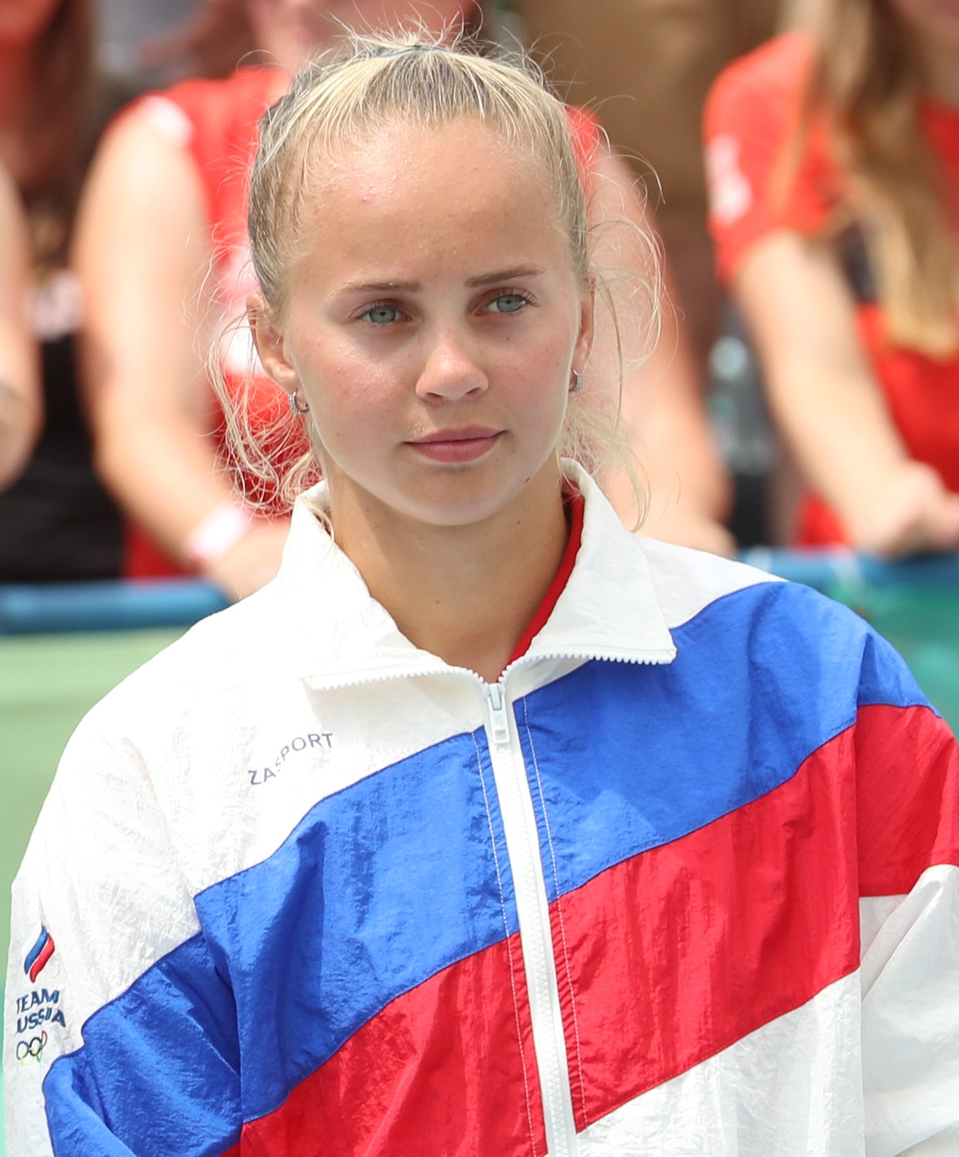 Beach volleyball, Victory ceremnony Girls